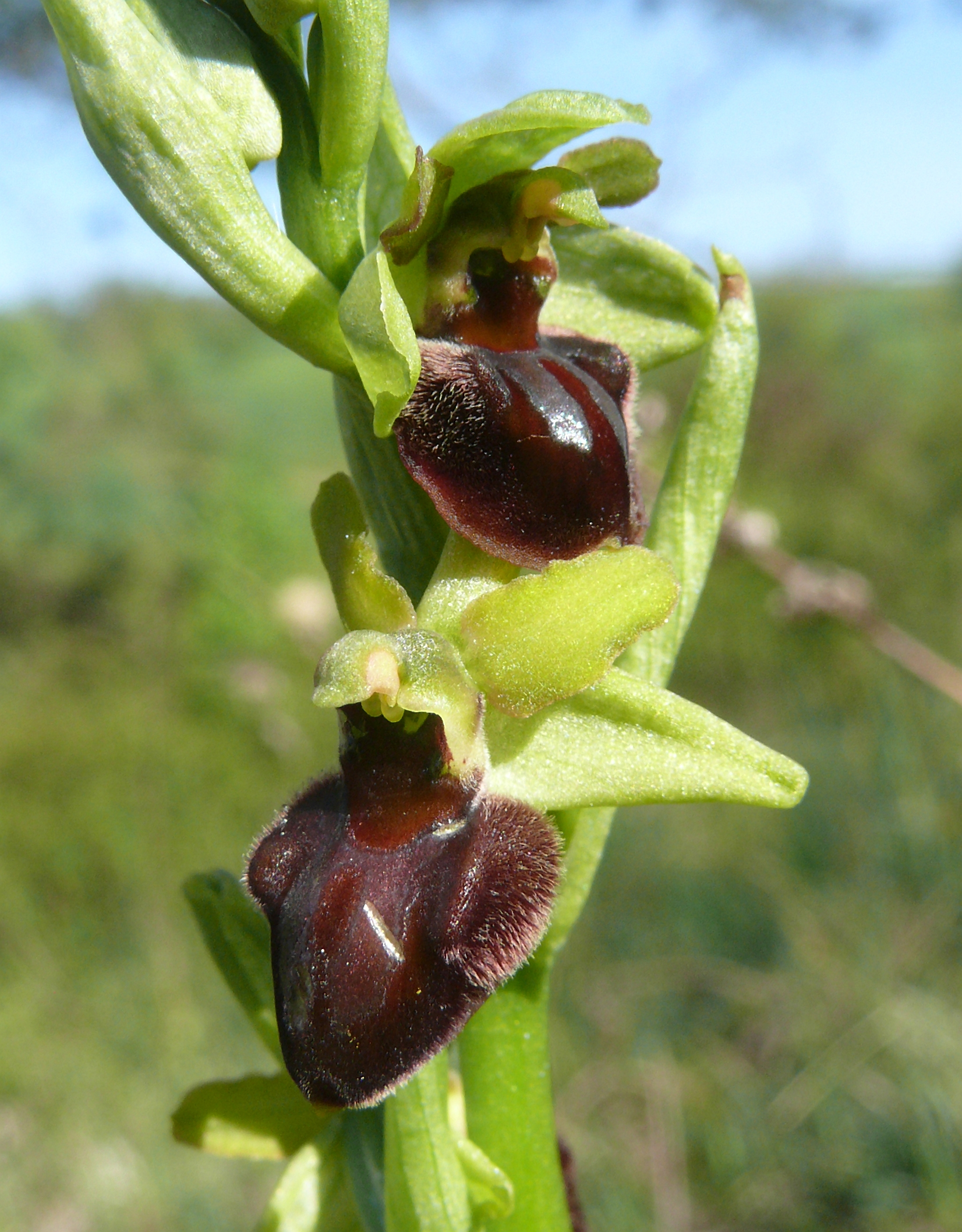 Ophrys sphegodes Germany - Hohenlohe